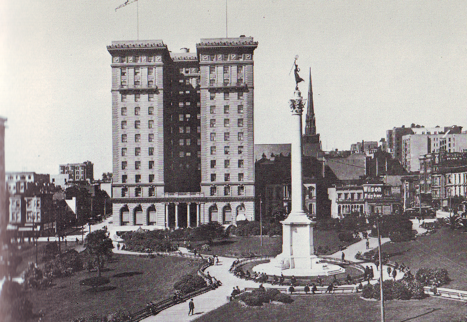 1904 photograph of Union Square, San Francisco, and the St. Francis Hotel.